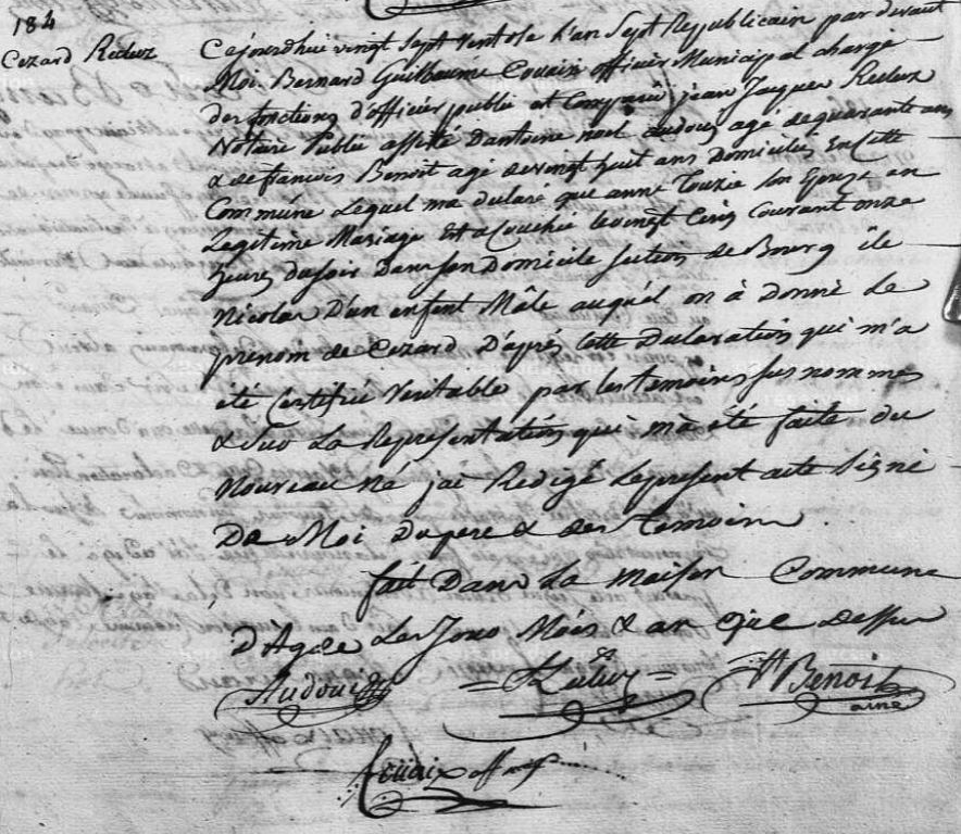 Birth 27 Ventôse an 7 = 17 March 1799